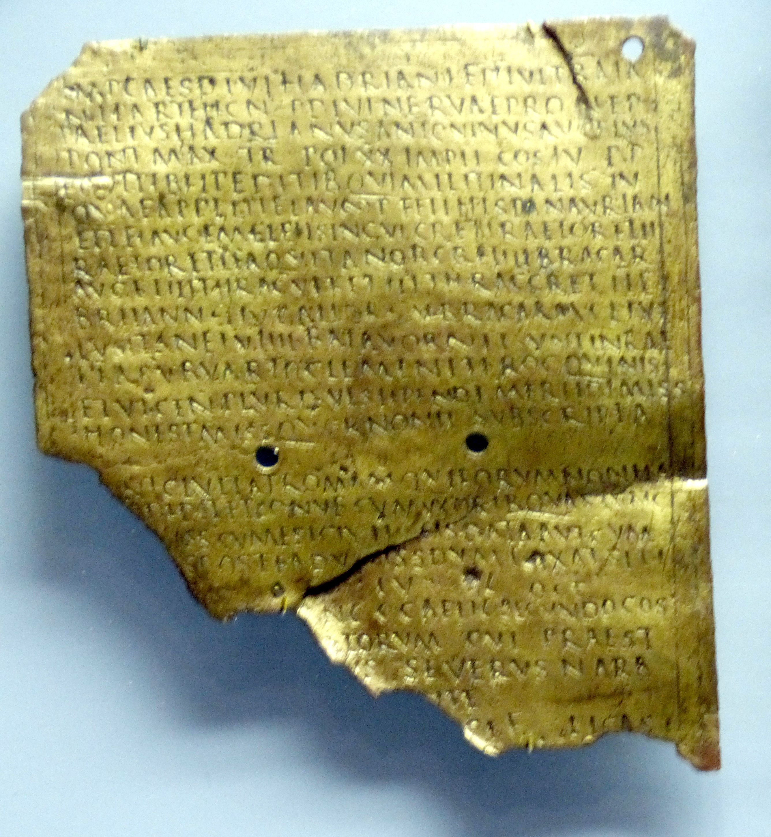 Landau an der Isar ( Lower Bavaria ). Archaeological Museum of Lower Bavaria: Ancient Roman military diploma ( replica ), from Eining.